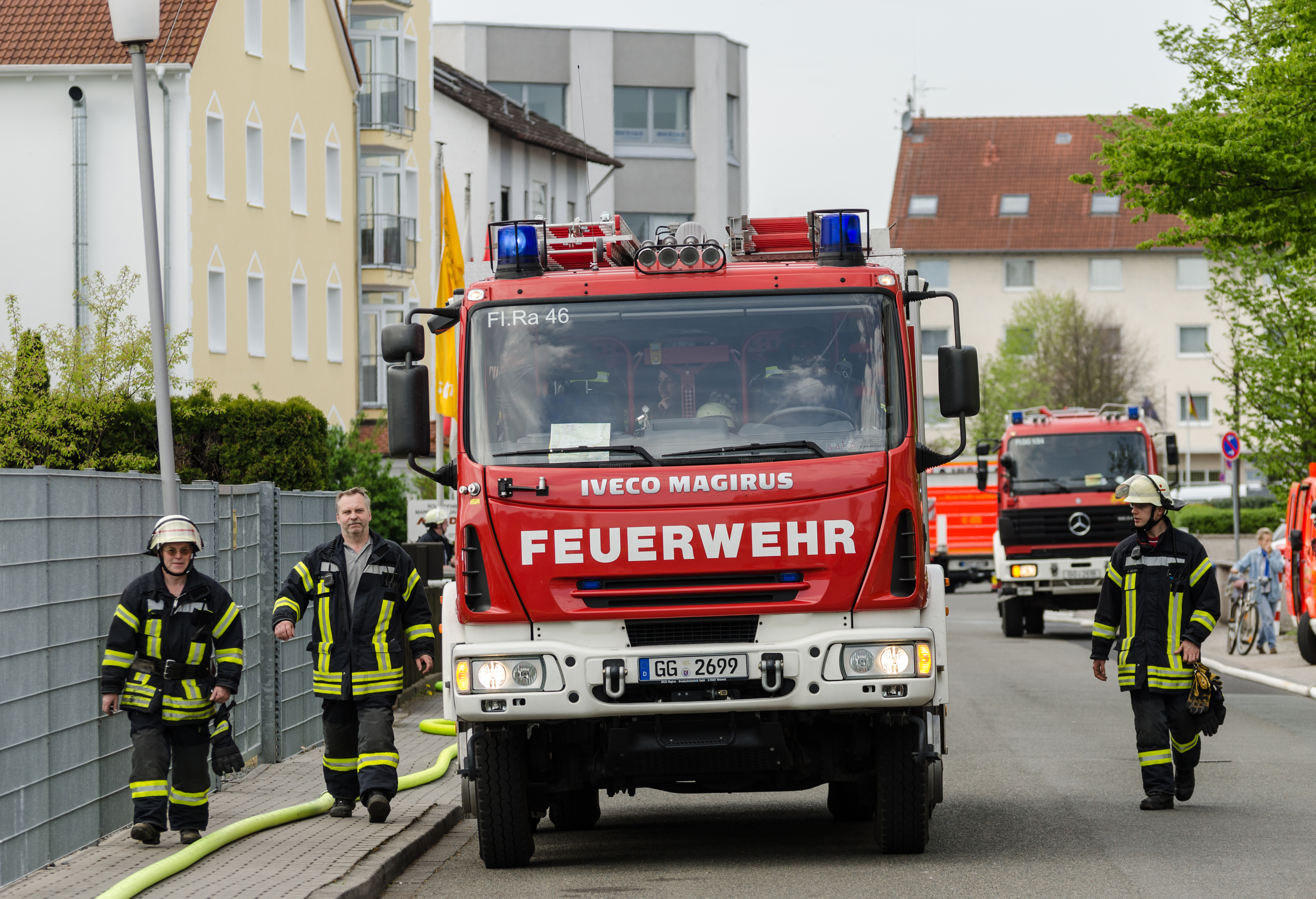 Fire in a tire depot, Mörfelden-Walldorf, Hesse, Germany (April 27th, 2012) – group fire-fighting-vehicle